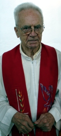 Photo of Father Louis Quinn C.M. S.F.M taken April 14th 2006.